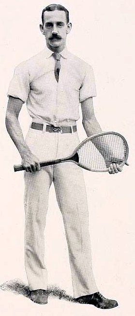 Henry Slocum (1862-1949), US tennis player